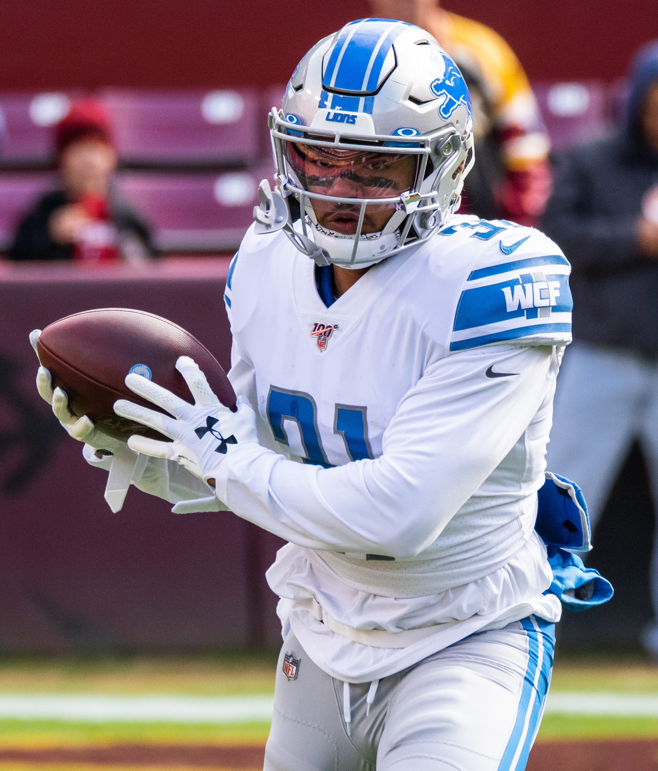 In 2019